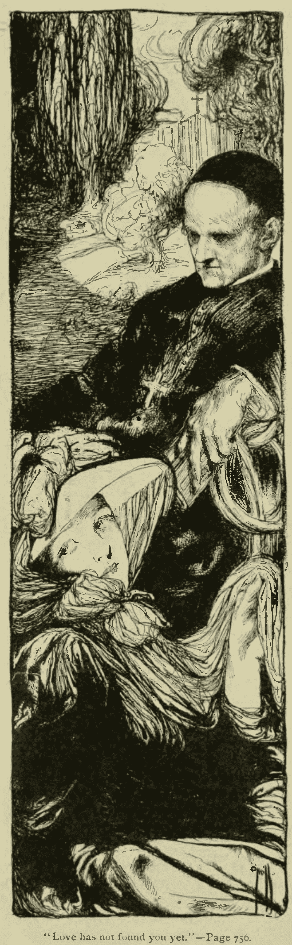 Page 757, Scribner's Magazine 1908. Extract from scan of illus for the story "Phyllida" by Temple Bailey. Illus by Rose O'Neill Wilson